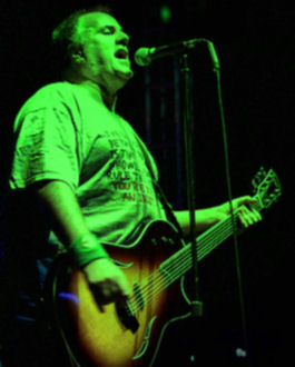 Photo taken by me on Mon 8th June 2009, at The Canteen, Barrow-In-Furness, of Henry Cluney, formerly of Stiff Little Fingers, on tour with The Alarm and The Damned during the 3-4-1 tour.